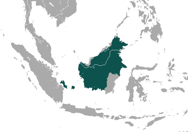 Slender Treeshrew (Tupaia gracilis) range